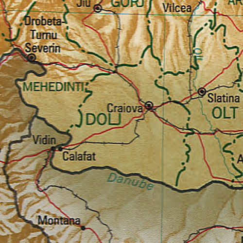 Map of Dolj County, Romania.